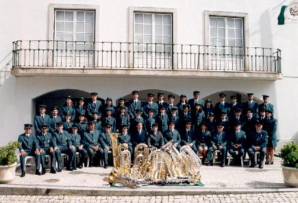 Banda Filarmonica da SFO